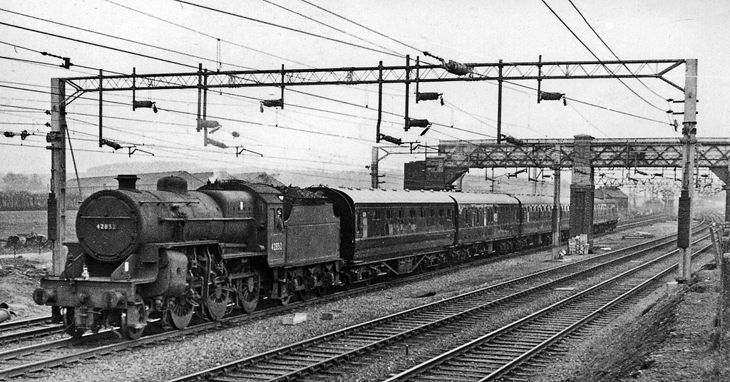 Down train of new carriages at site of Madeley Station. View southwards, towards Stafford, Rugby and London; ex-London & North Western West Coast Main line. The masts and wires for electrification are up, but it was four years before electric trains reached London (Euston). The train, running under Class C headlamps, is headed by Hughes/Fowler 5P4F 2-6-0 No. 42852. Madley Station had long been closed to passengers, on 4/2/52.